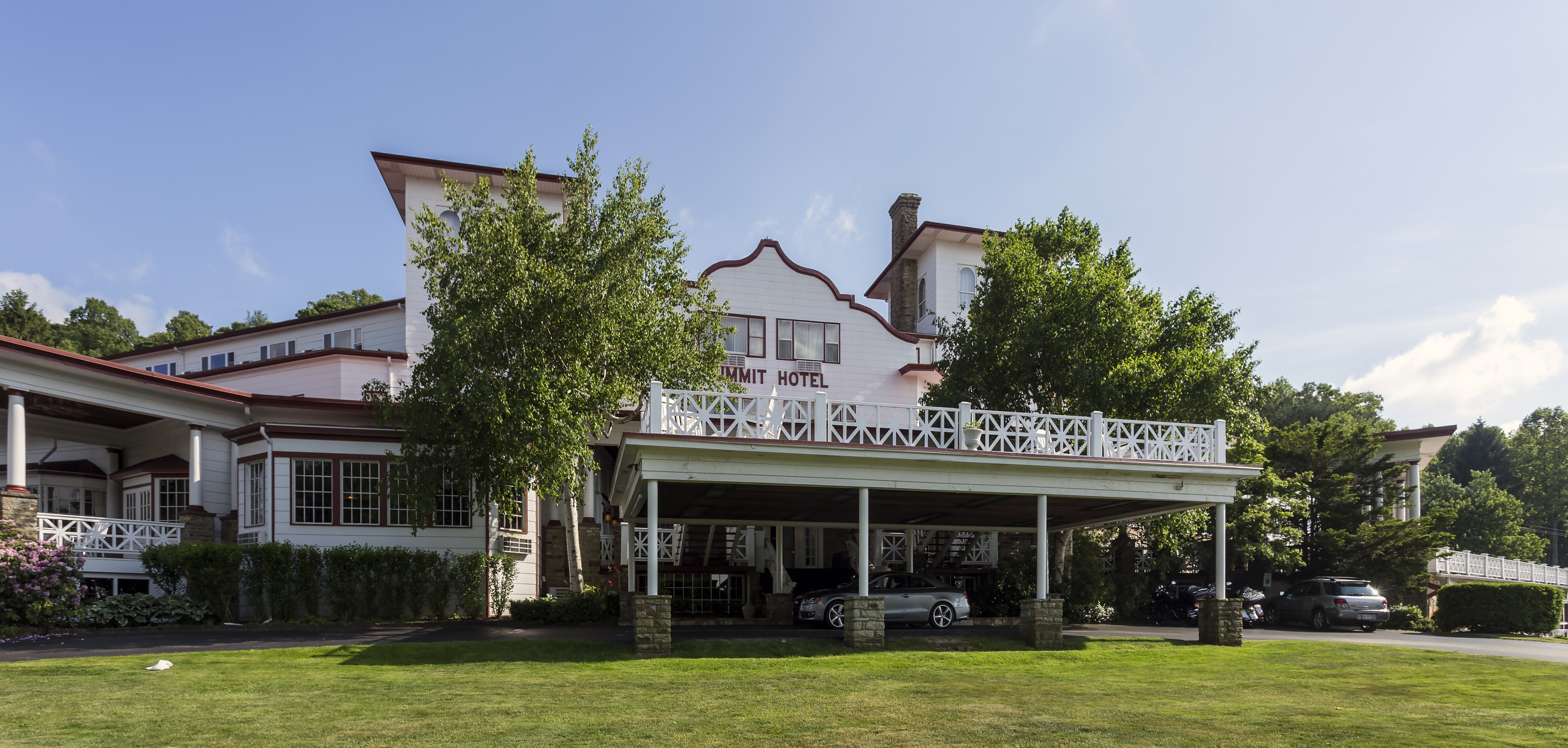 The exterior of the Summit Hotel near Uniontown, Pennsylvania, USA